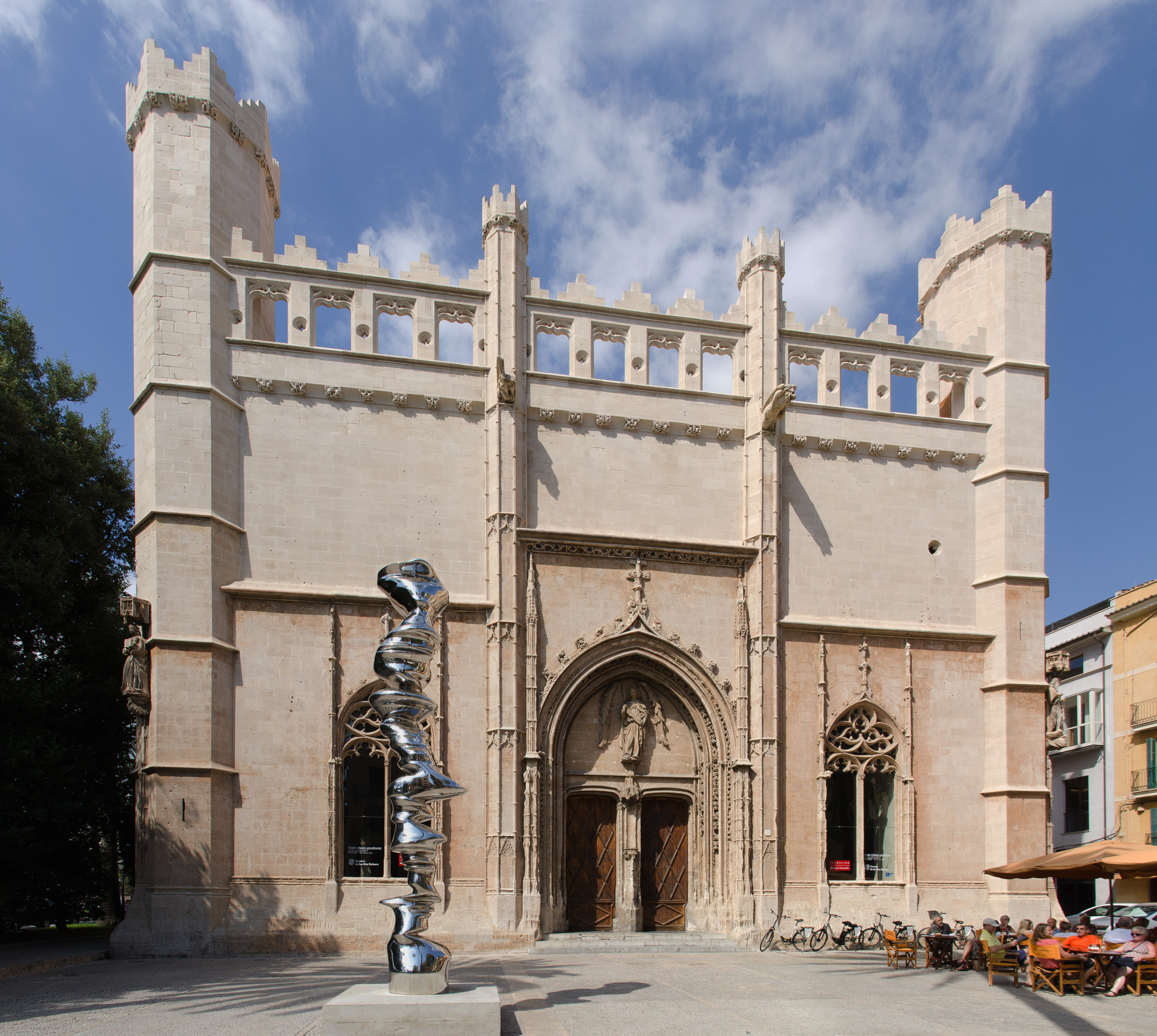 Sa Llotja, Palma de Mallorca, with sculpture "Points of View" (2010) by Tony Cragg